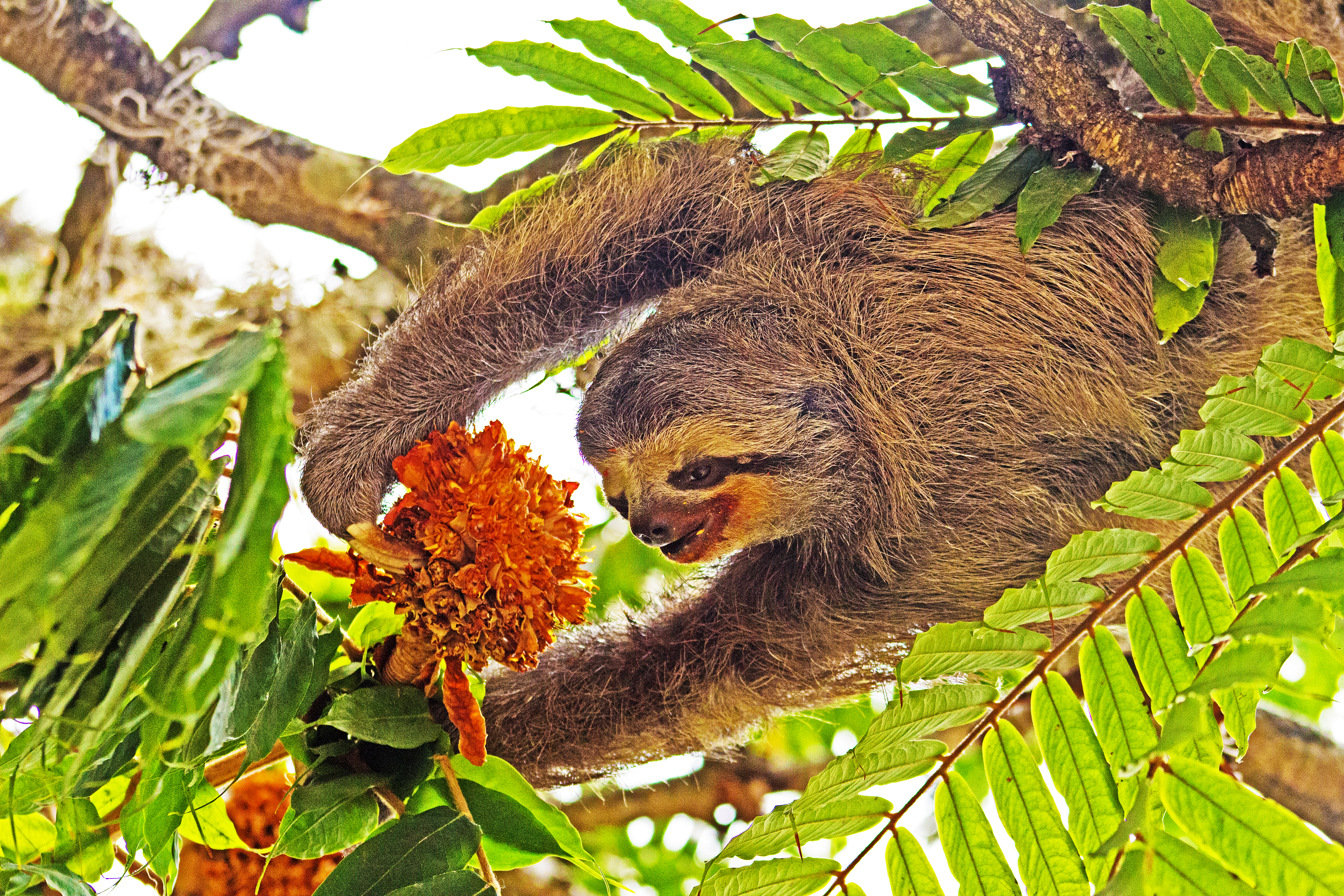 A Pale-throated sloth in Parque del Este, Caracas, Venezuela.